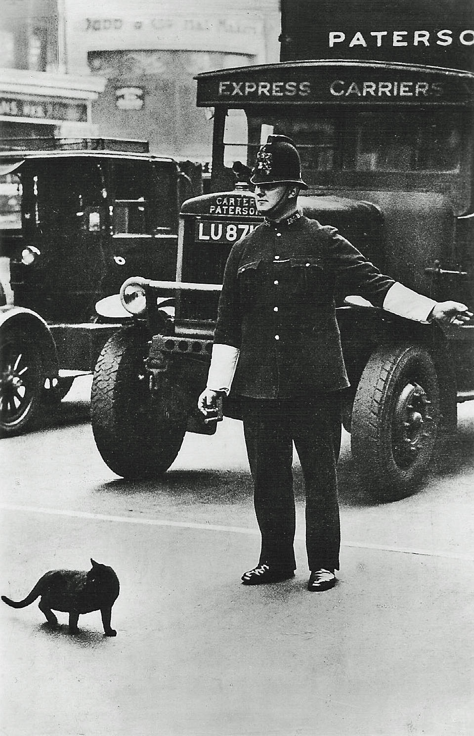 I think that this is Fleet Street junction with Ludgate Circus sometime in the late 1920s. It is obviously a 'mocked up' photograph and is titled "May Good Luck always cross your path". The Carter and Paterson lorry driver needs a bit of luck because his nearside front tyre is bald. Carter and Paterson was founded in 1860 as a carrier and delivery company and was one of the first delivery companies to change over from horse power to steam lorries in 1904. They had their depot in Goswell Road just north of the City of London. In 1933 they were taken over by the big four Railway Companies and in 1948 became part of British Road Services. The modern delivery company 'Lynx' is a direct descendant of Carter Paterson through takeovers, nationalisation and buy outs over the years.